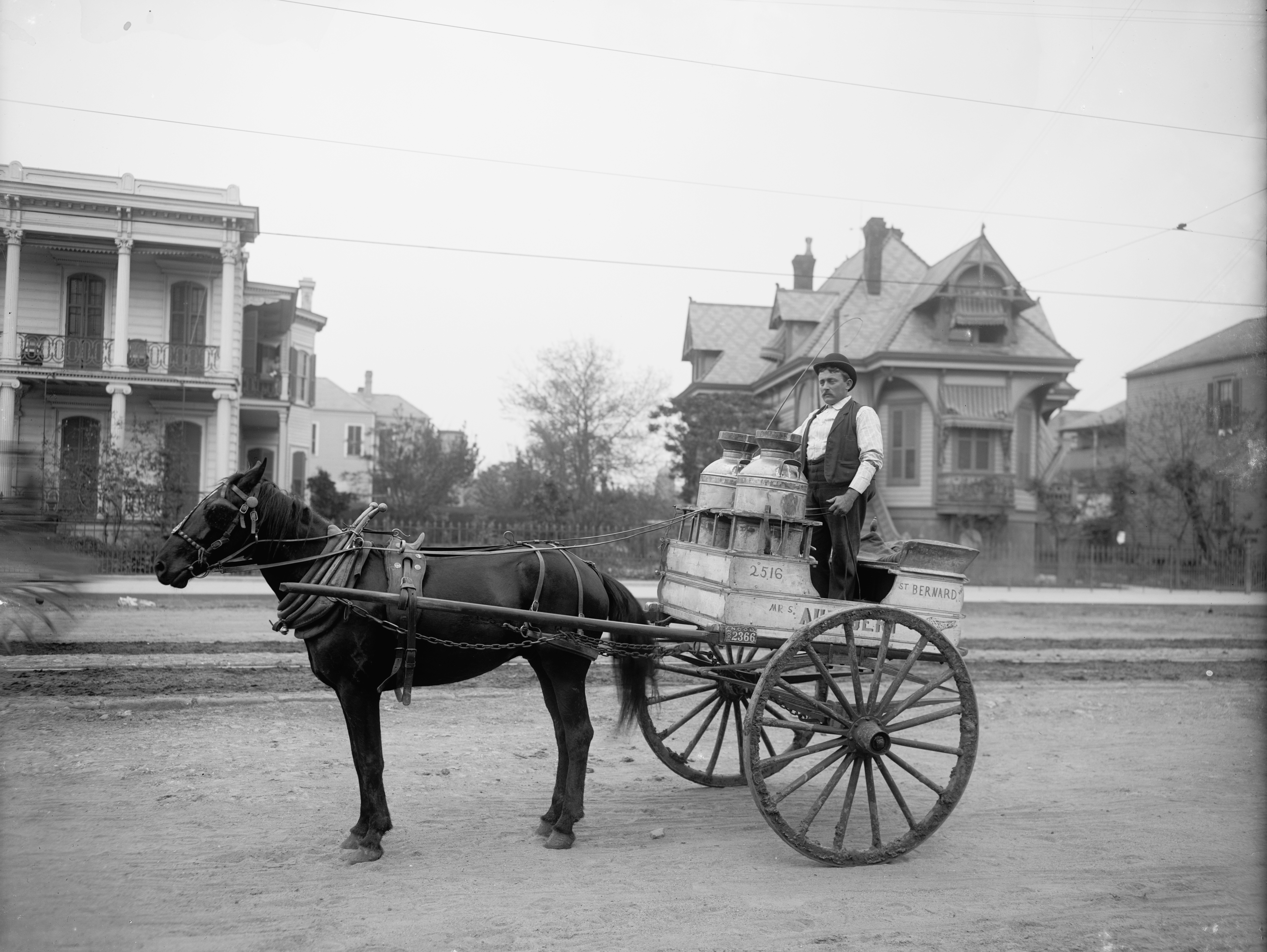 A New Orleans milk cart. New Orleans, Louisiana, c. 1903. 2100 block of Esplanade Avenue, looking at downriver side near Miro Street. Note: Discussed at [1] Similar view of same block in 2010: File:Esplanade No Milk Wagon 2010.JPG